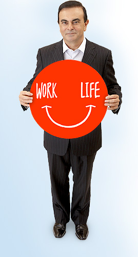 Carlos Ghosn, President of Nissan Motor Co., Ltd., promoted "work–life balance".